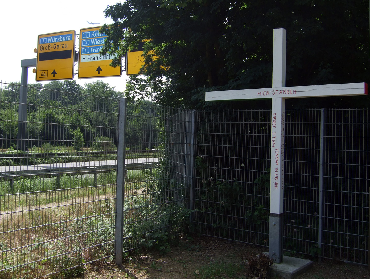 A white, wooden cross reminds of the Starfighter crash on May 22, 1983 that killed the Juerges family and Gesine Wagner. Parts of the plane hit the family's stationwagon on the freeway to the left.